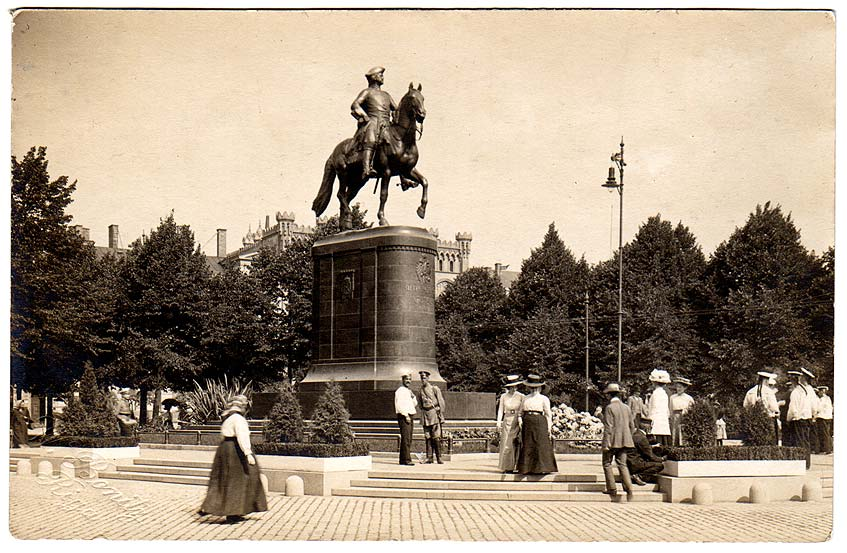 Emperor Czar Peter I of Russia (Peter the Great) memorial, Riga, Russian Empire. Russian Empire postcard. 1910s.